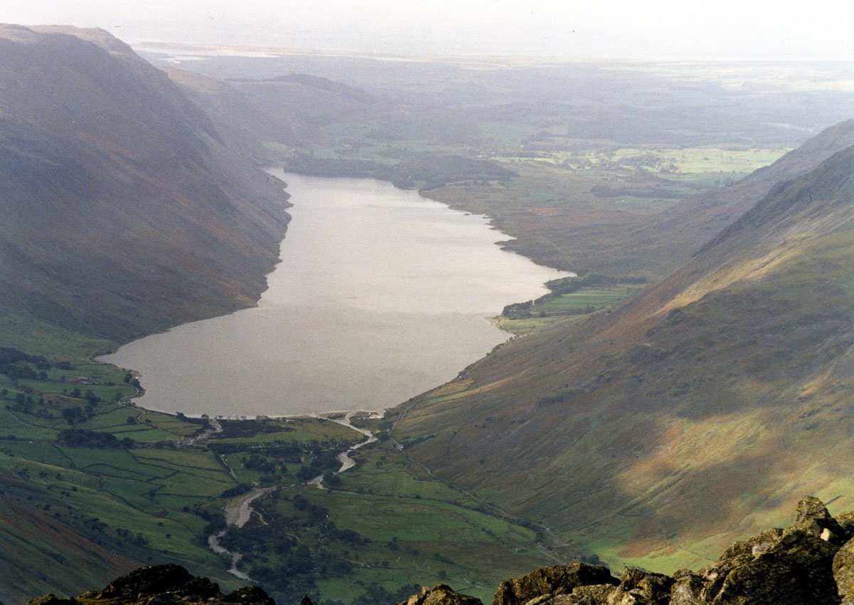 Personal picture taken by Mick Knapton. Wast Water from Great Gable